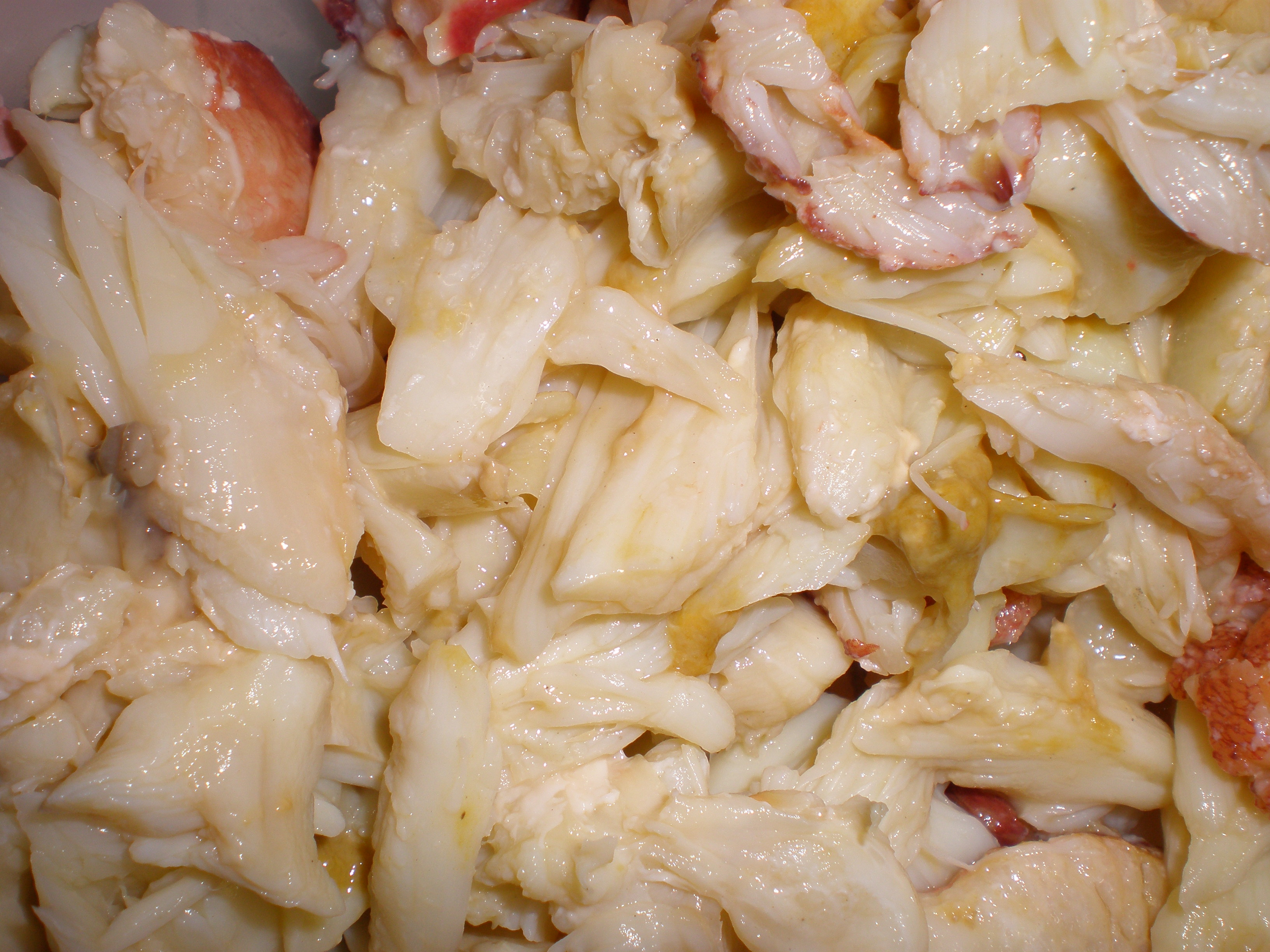 Peeled crab meat